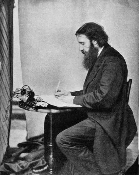 George MacDonald writing.